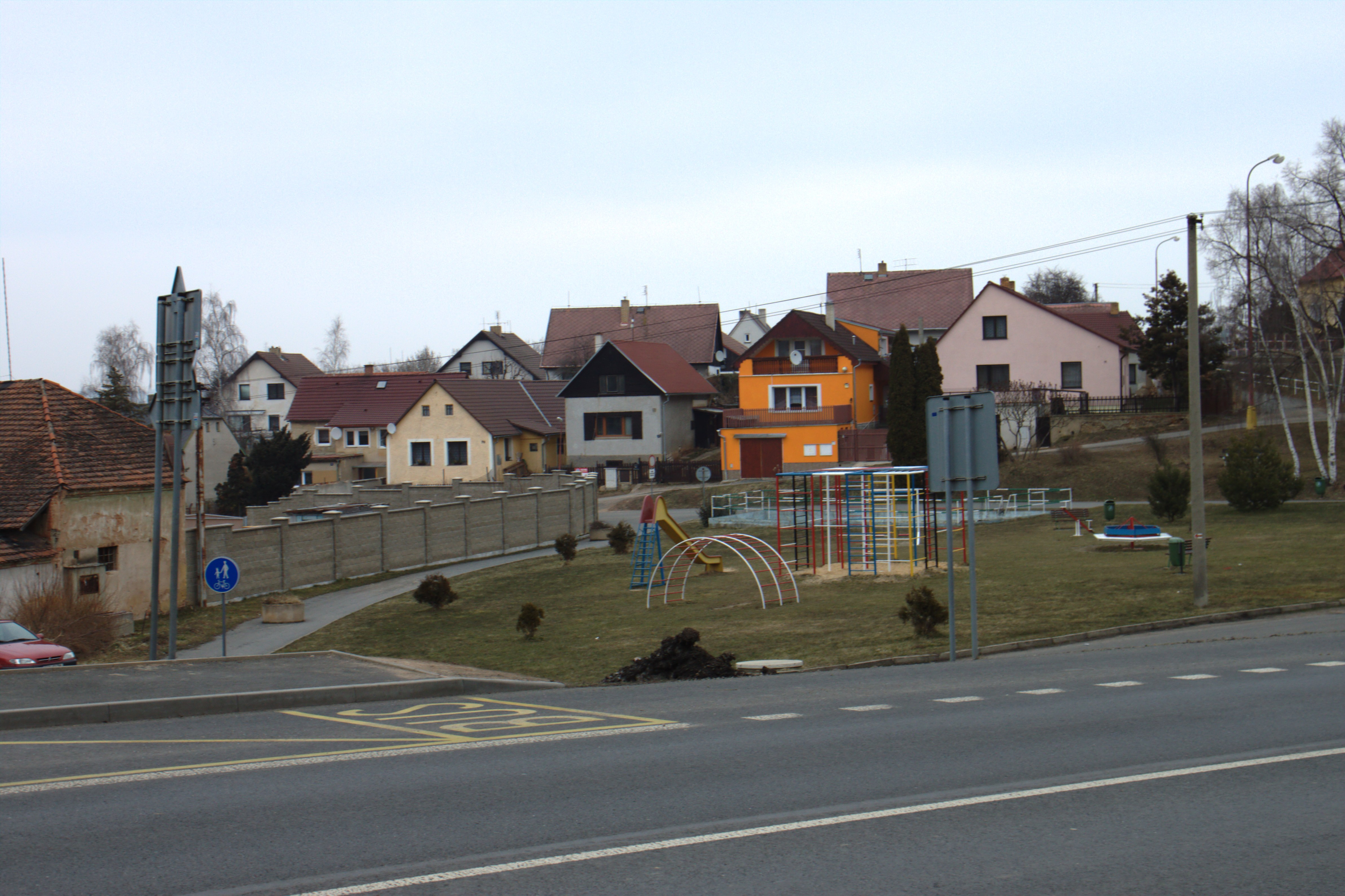 Central part of the town of Lubná, near the main Road to Rakovník, Central Bohemian Region, CZ